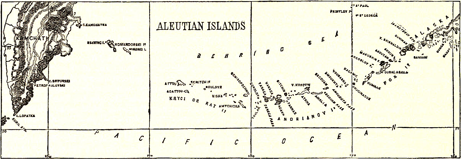 Map of the Aleutian Islands.